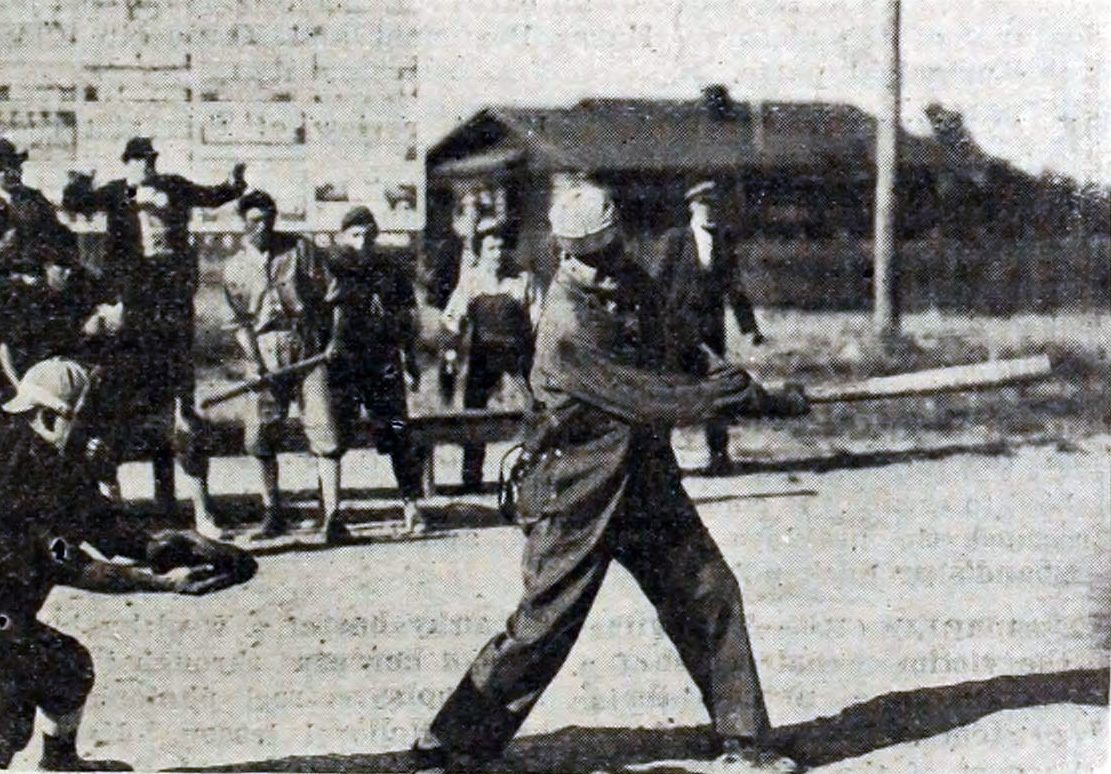 Illustration of a review in The Moving Picture World